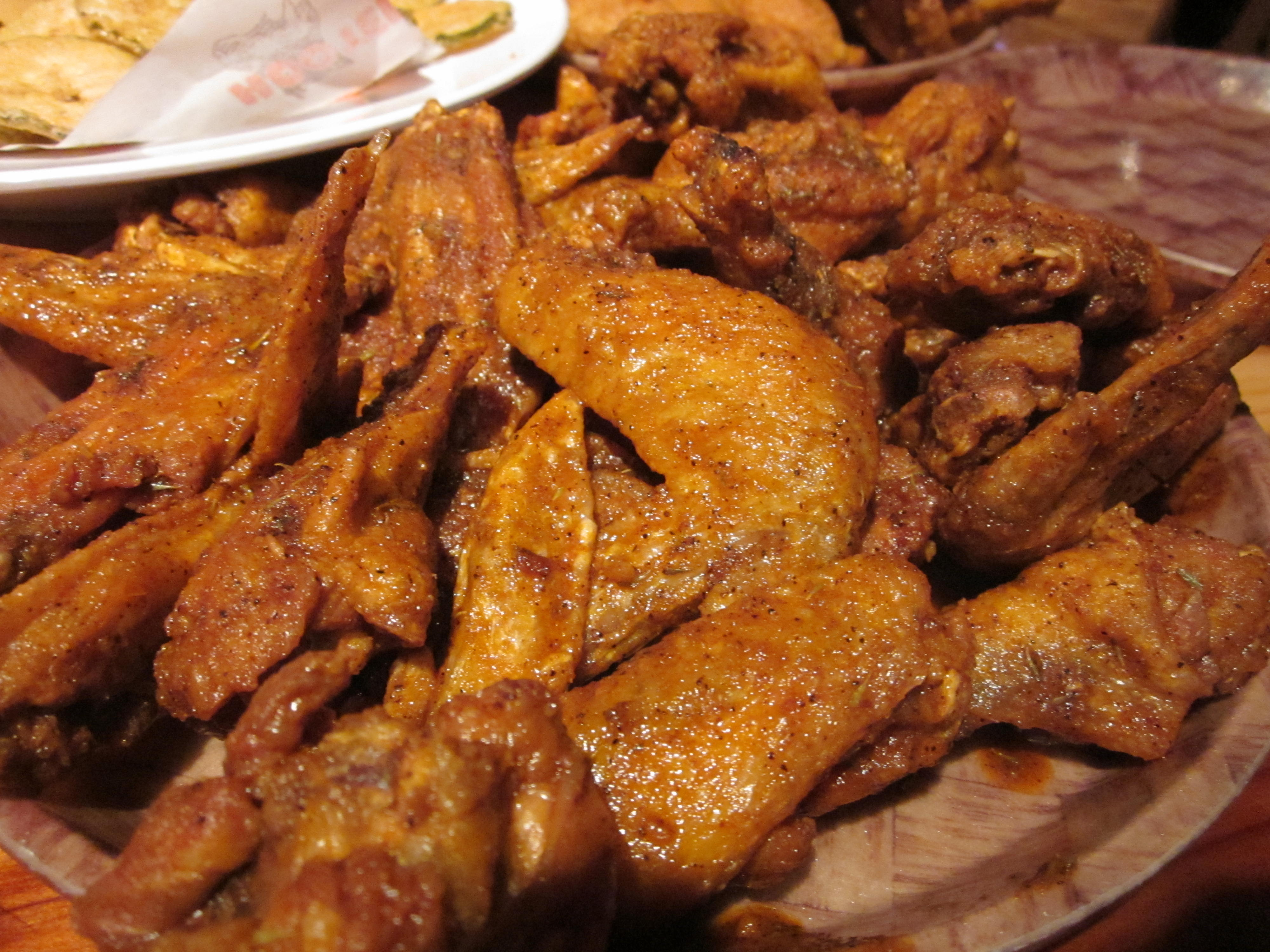 Hooter's cajun sauce naked wings.